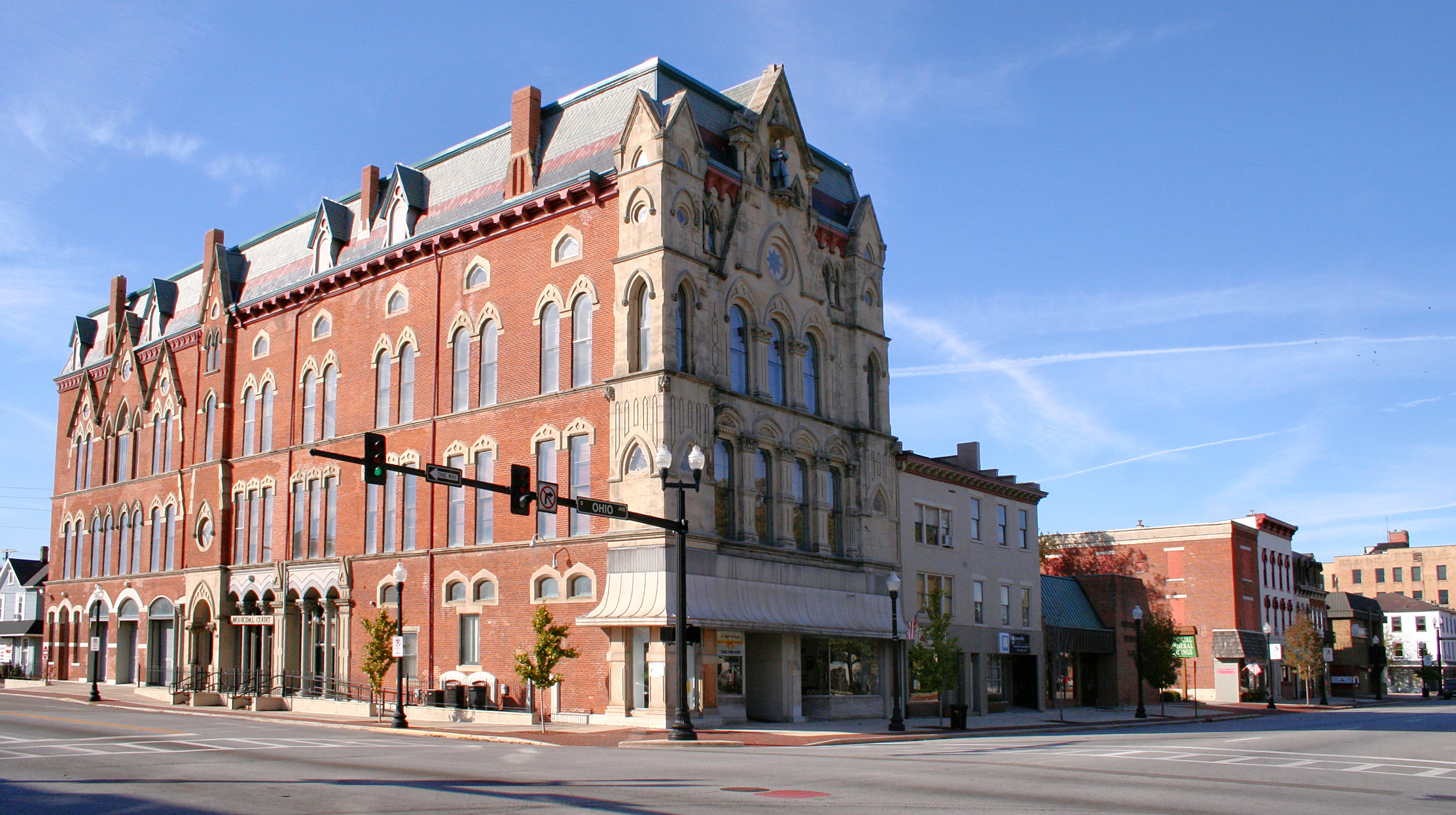 Downtown Sidney, Ohio. The municipal courts are housed in the Gothic revival 1877 Monumental Building dedicated to the county's Civil War dead.